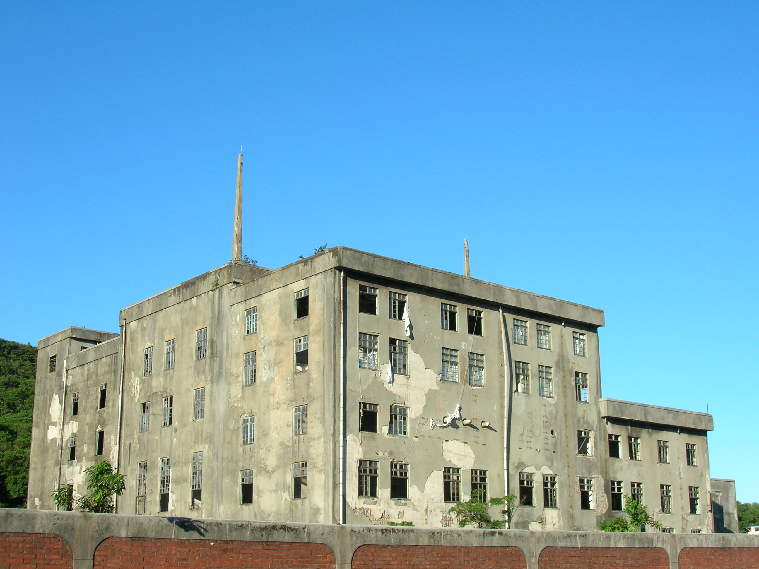 Proposed base of National Museum of Marine Science and Technology, Keelung, Taiwan.